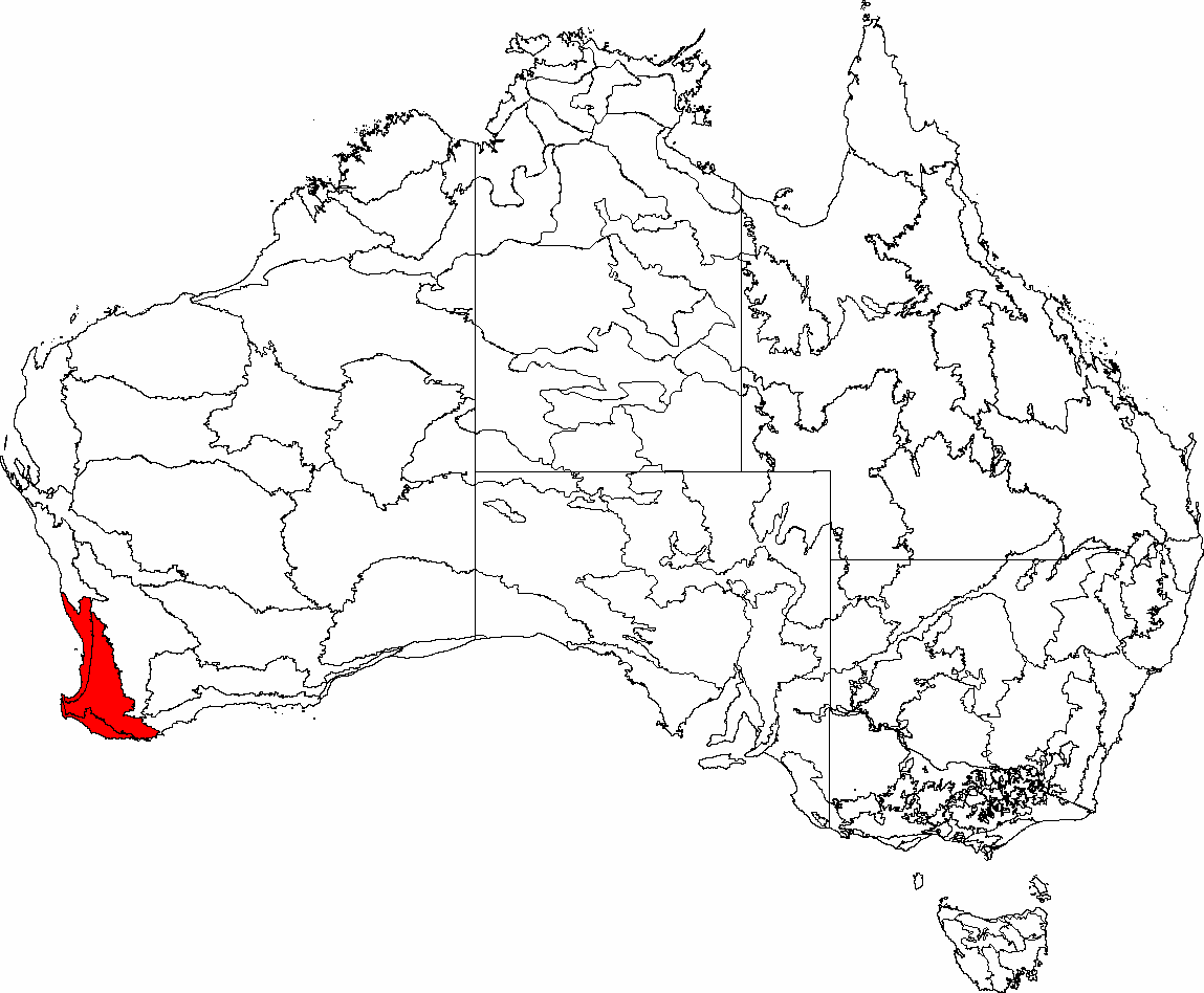 This is a map of the Interim Biogeographic Regionalisation of Australia (IBRA), with state boundaries overlaid. The regions that comprise Hopper's High Rainfall Zone of Beard's South West Botanical Province are shown in red.